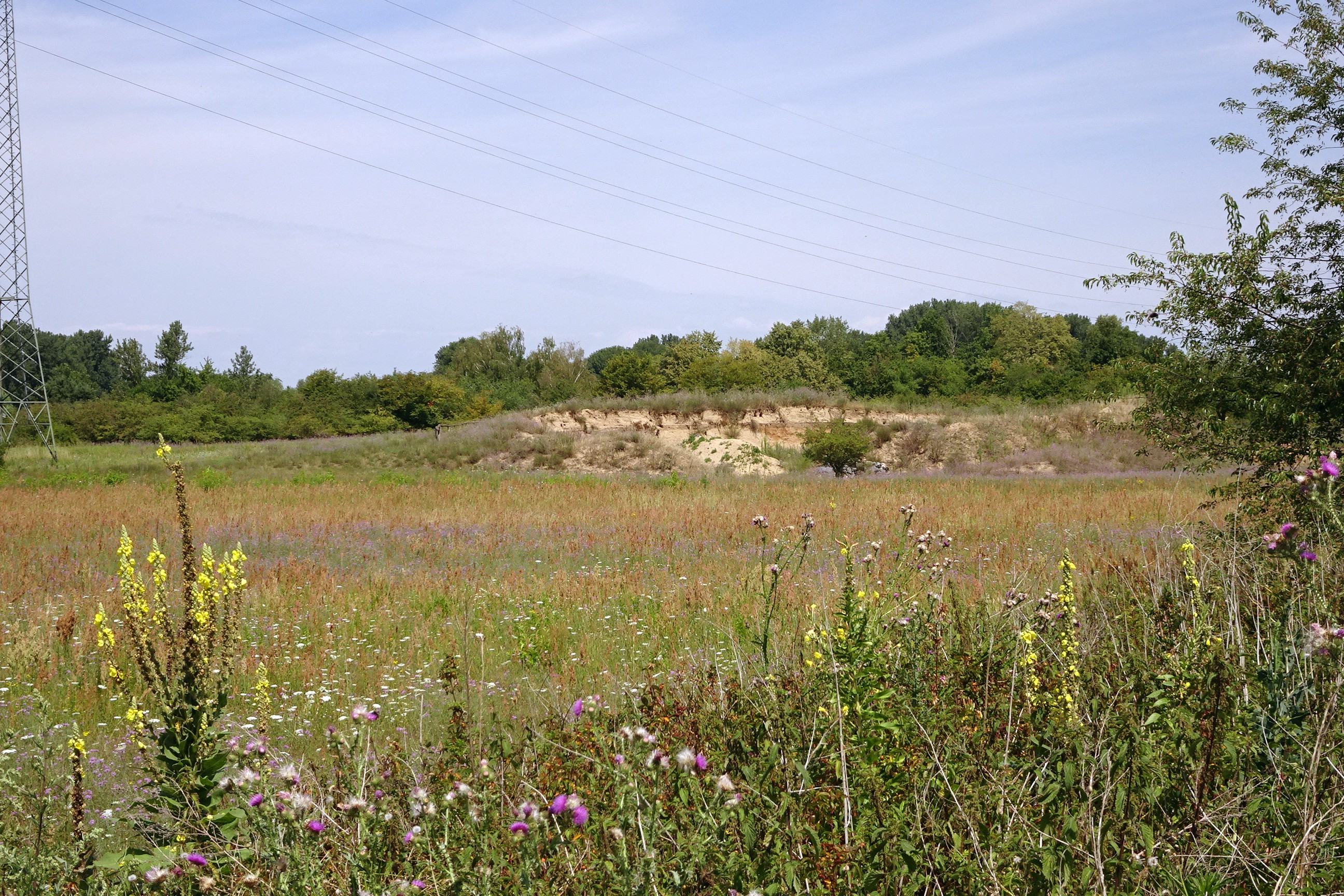 Protected area "Im Dulbaum bei Alsbach" (Landkreis Darmstadt-Dieburg, Hesse, Germany). View from the east to the former sand mine.